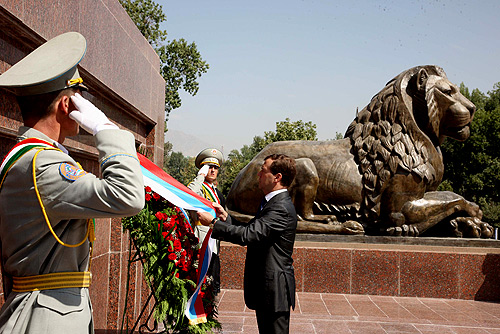 DUSHANBE. Laying a wreath at the monument to Ismoil Somoni at the National Concord and Renaissance of Tajikistan Memorial Complex.